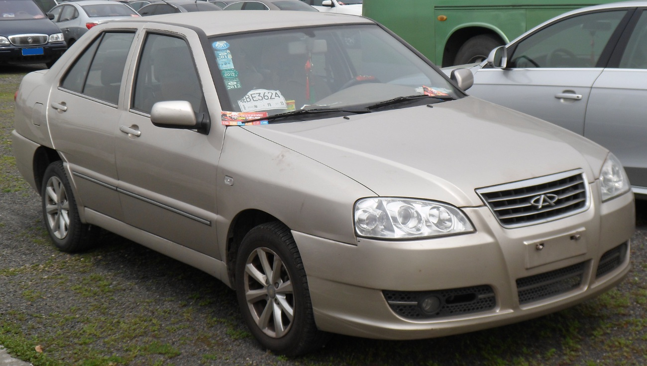 Chery Cowin 2 photographed in Anting, Shanghai municipality, China.